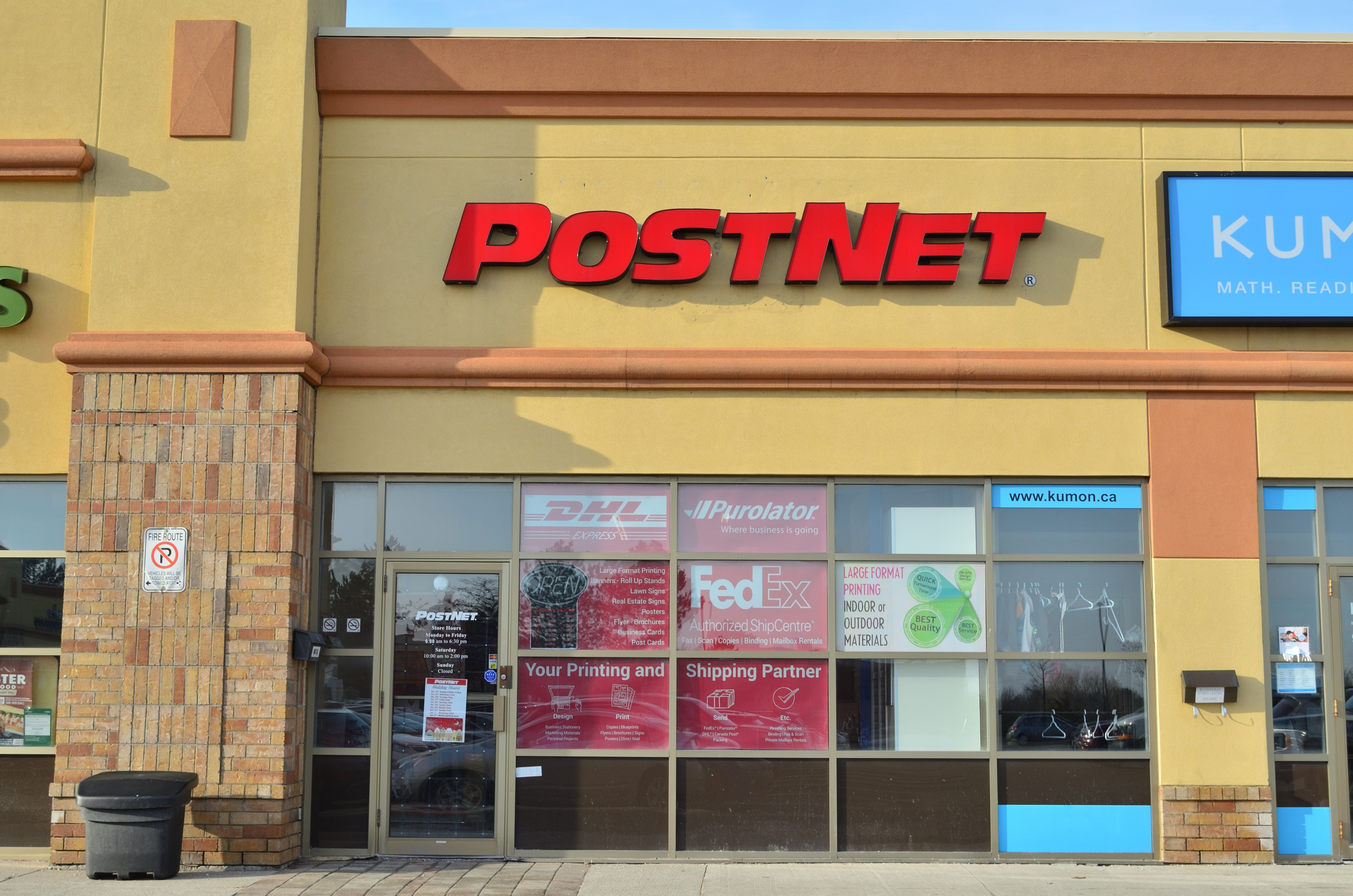 PostNet in Markham - Address: 8865 Woodbine Ave Unit D3, Markham, ON L3R 5G1